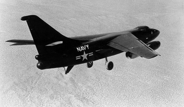 The Douglas XA3D-1 Skywarrior (BuNo 125412) on first flight over Edwards Air Force Base, California (USA), on 28 October 1952. Note the Westinghouse engines. Douglas began to design the aircraft in 1949. Another XA3D-1, BuNo 125413, was built. The Skywarrior entered service in March 1956, in 1962 the A3D was redesignated A-3.